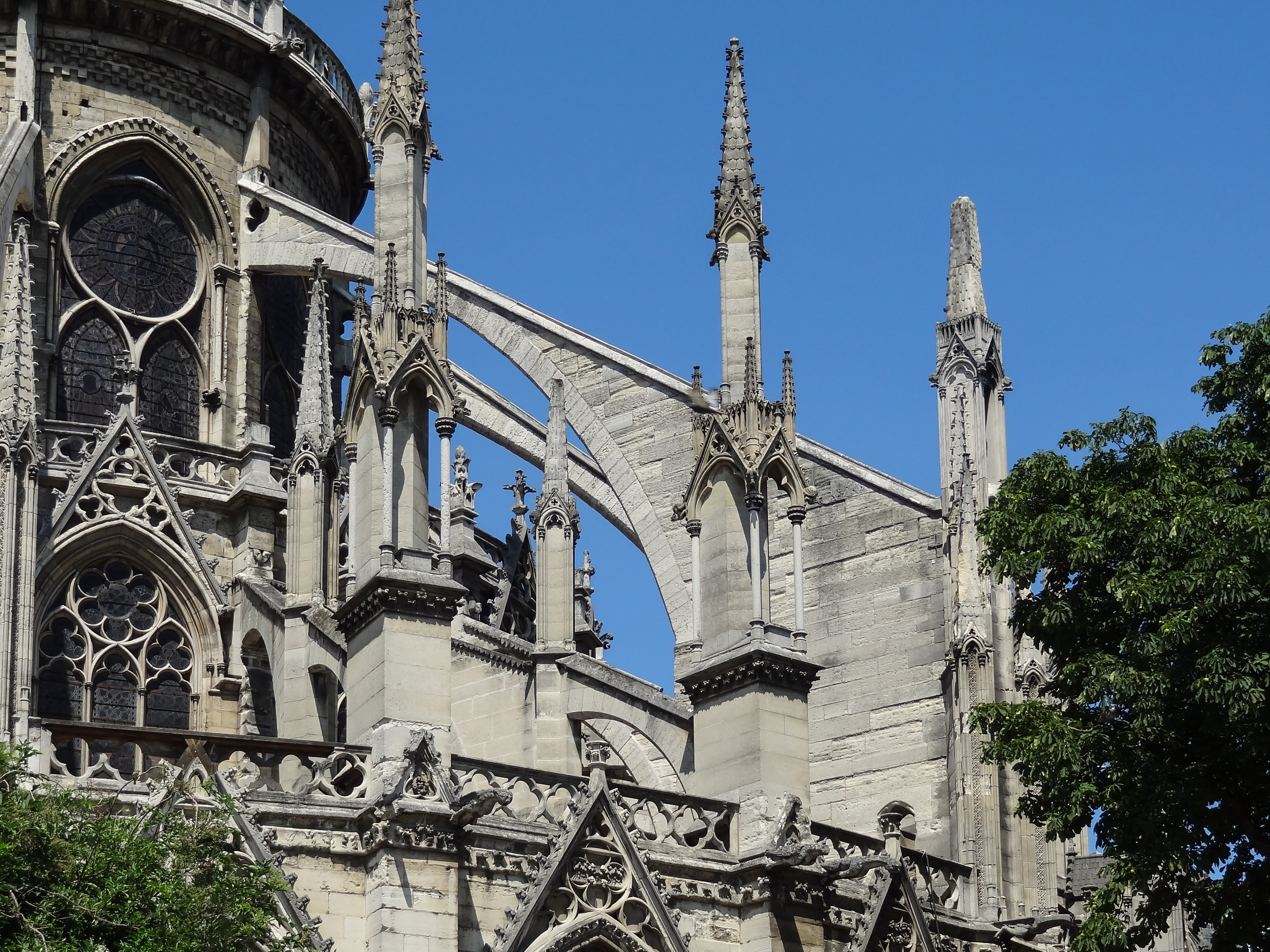 A view of the South-East side of the Notre Dame de Paris, with the gothic architecture featuring details spires, windows, gargoyles and more.